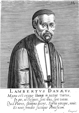 Portrait of Lambert Daneau